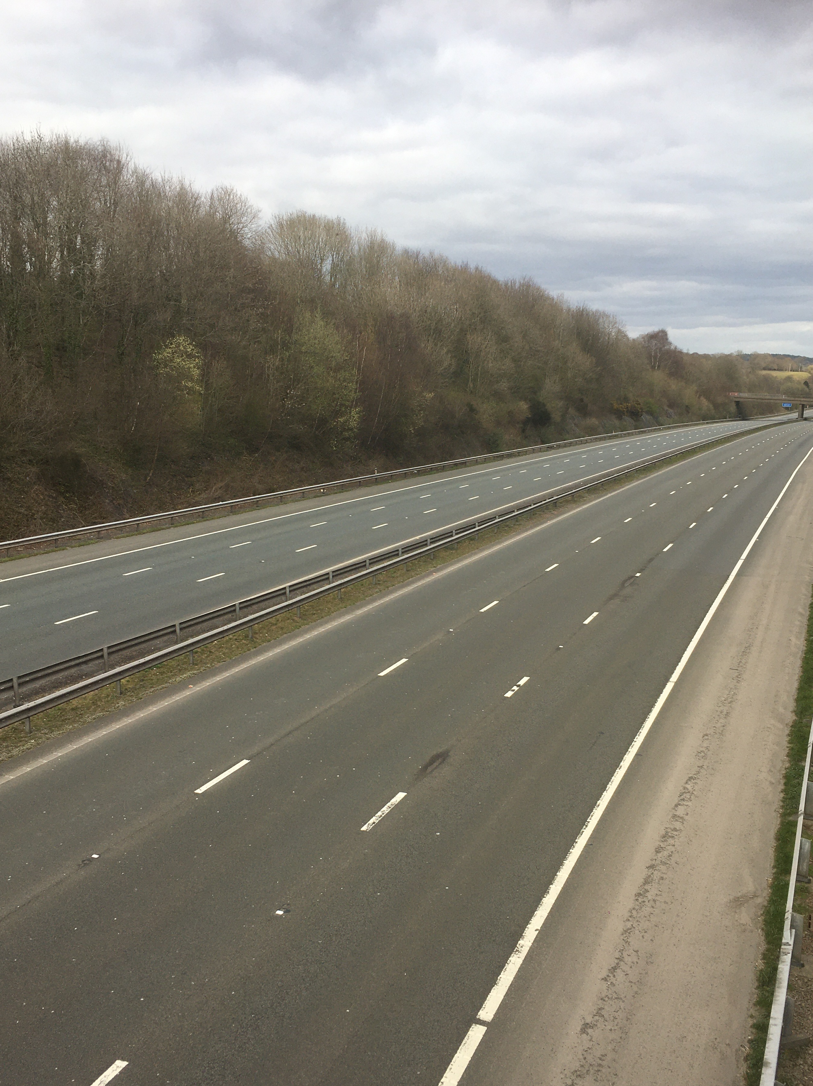 Empty M4 Motorway in Cardiff due to COVID-19 on Saturday 28 March at 4.18pm